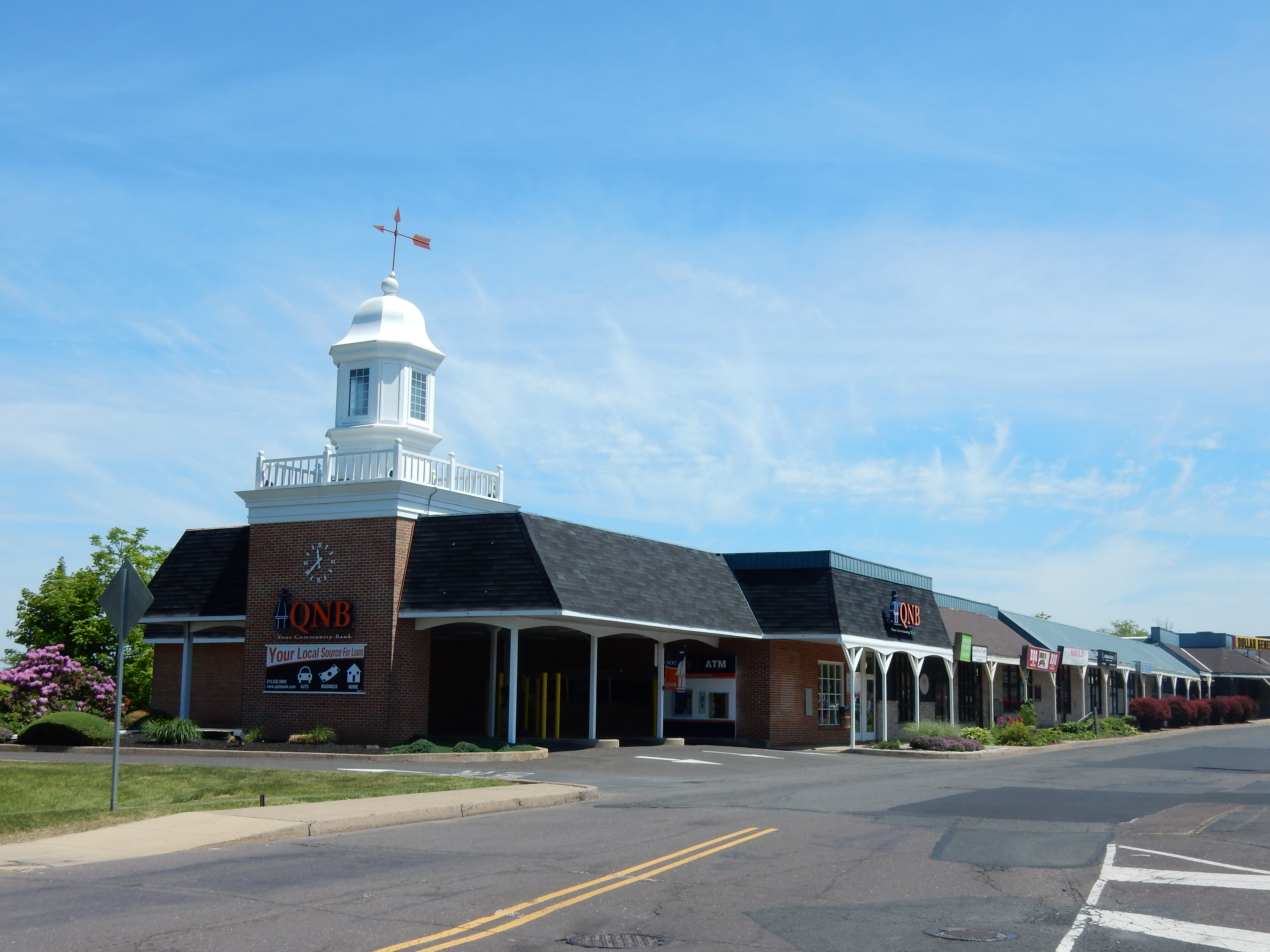 QNB Bank, 179 N. Main St. (Route 313), Dublin, Bucks County, PA. Dublin Village Shopping Center.